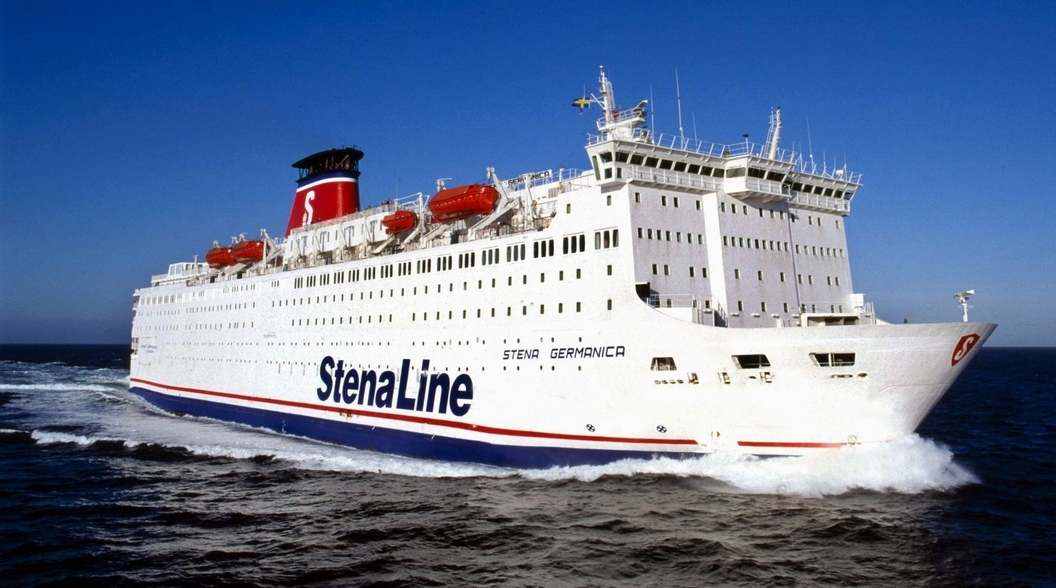 Cruiseferry MS Stena Germanica (renamed Stena Vision in 2010) of Stena Line.